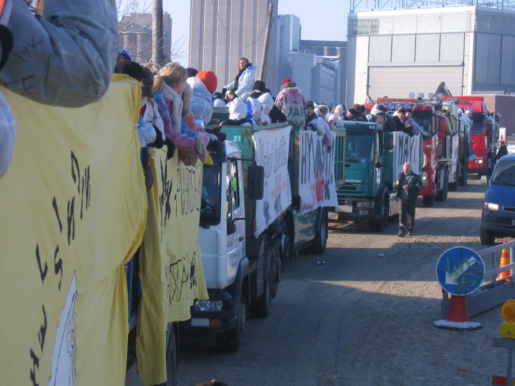 A truck convoy during penkinpainajaiset (after last day of gymnasium) on 16th February 2006.